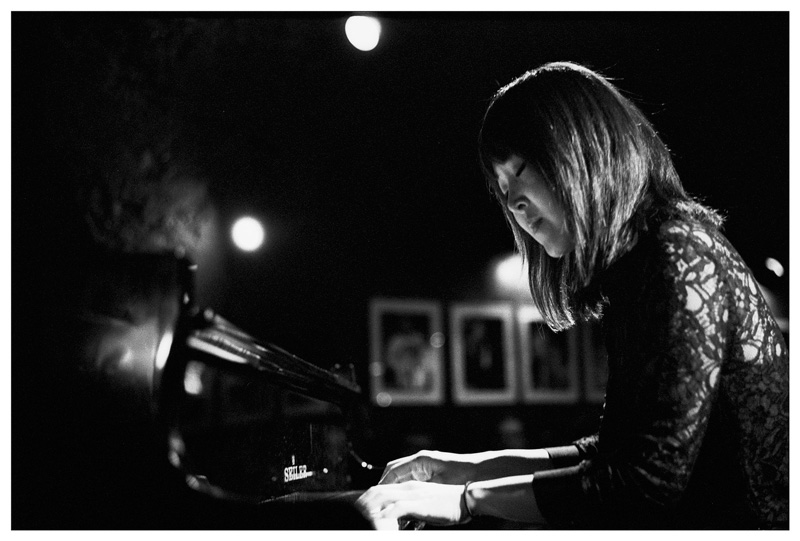 Gee Hye Lee, Jazzkeller, Frankfurt am Main, 2013